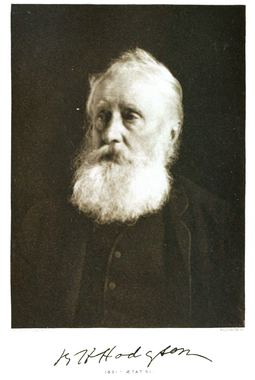 Brian Houghton Hodgson at 91